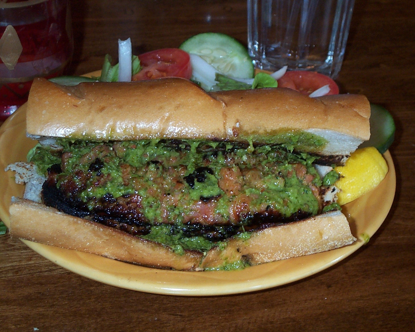 Choripán sandwich with green chimichurri sauce